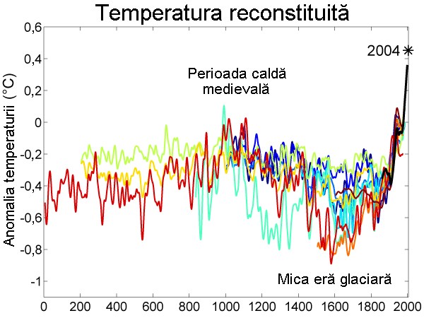 see File:2000 Year Temperature Comparison.png for detailed info